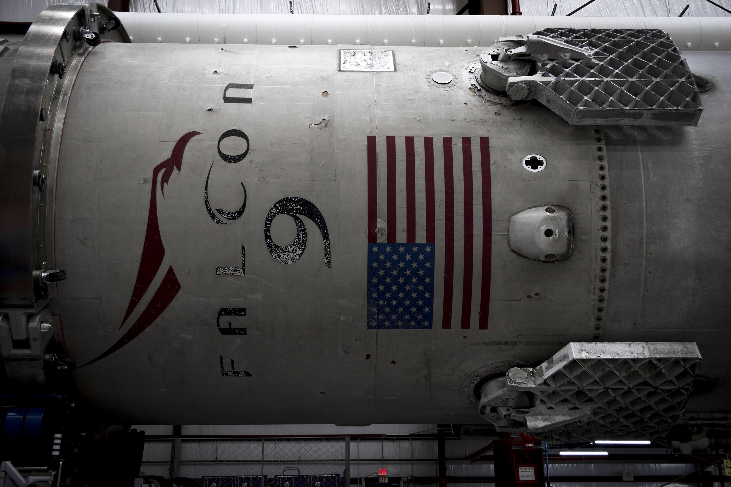 B1019, the first stage of the Falcon 9 of the Falcon 9 Flight 20 after December 2015 landing at Cape Canaveral and being moved back to the SpaceX hangar.